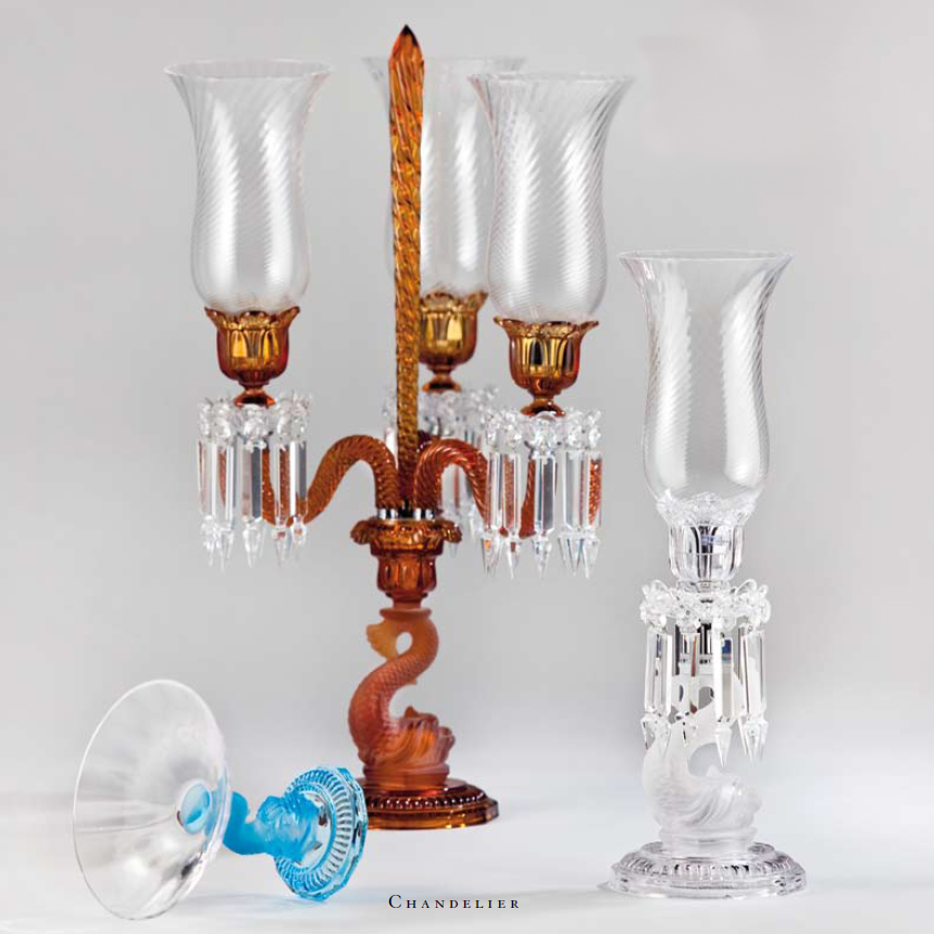 Chandelier from Portieux Crystal Manufacory